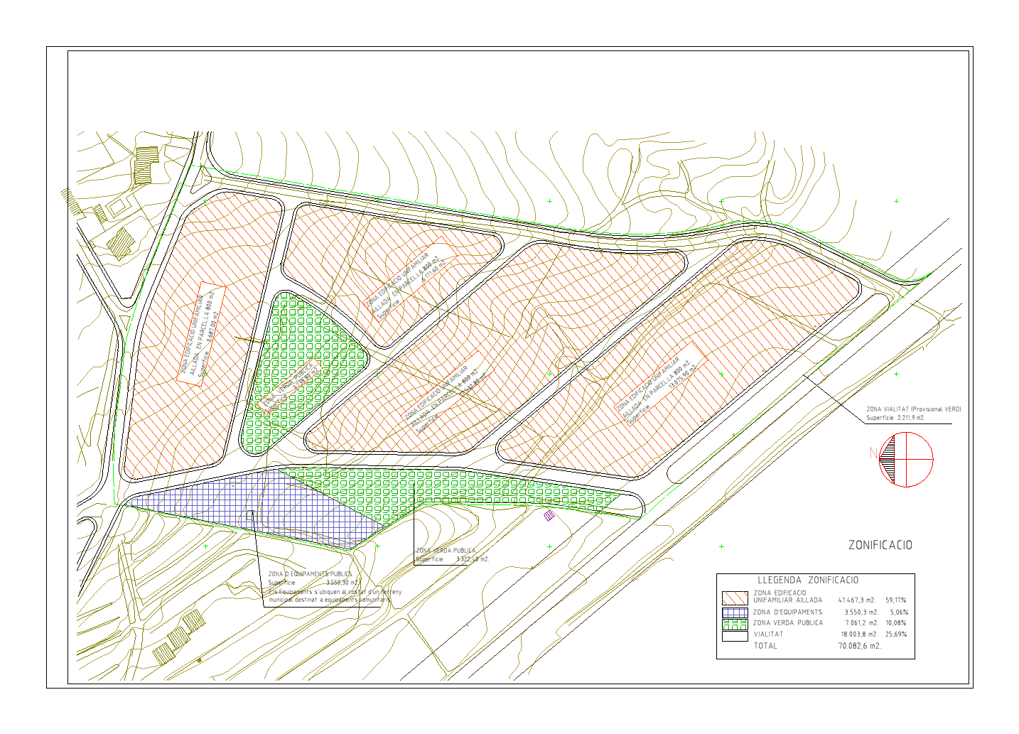 Zoning Map of Part of a Plan of Arrangement (PPO) in a sector planning.